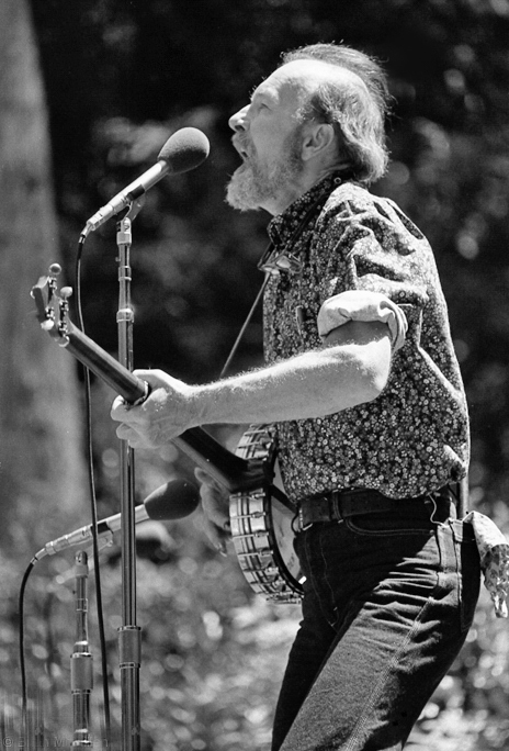 Pete Seeger, Stern Grove, San Francisco CA 8/6/78. Photo: Brian McMillen